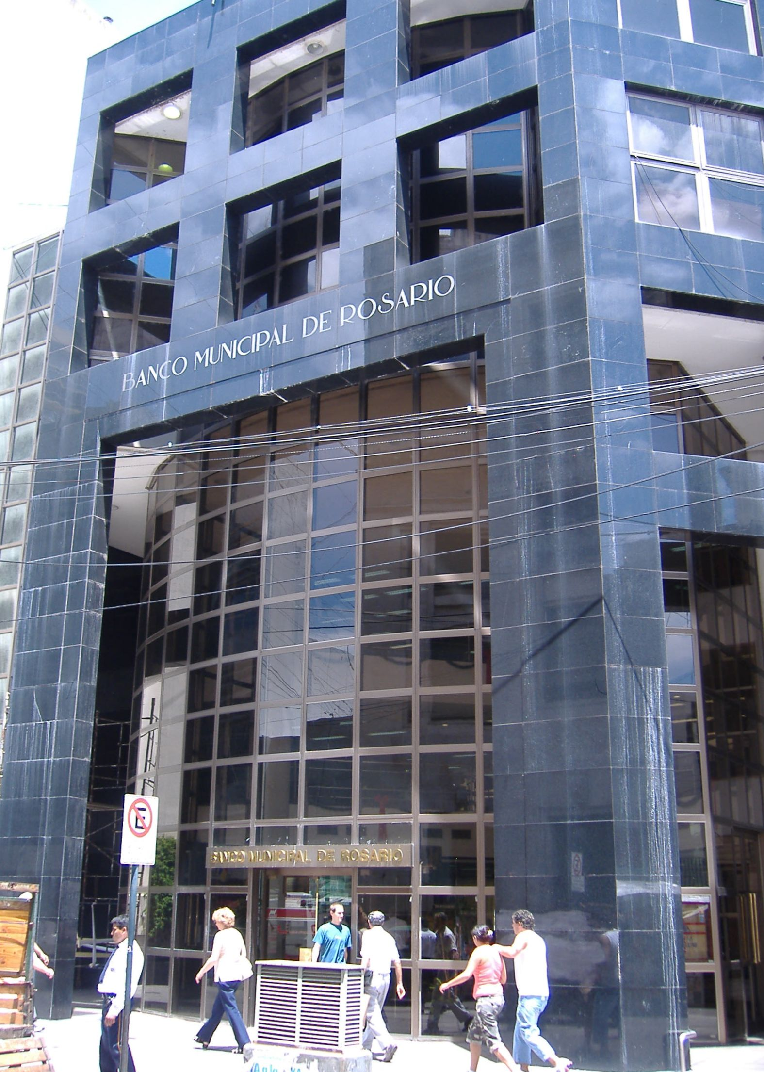 The main offices of the Municipal Bank of Rosario, on San Martín St., Rosario, Santa Fe Province, Argentina.